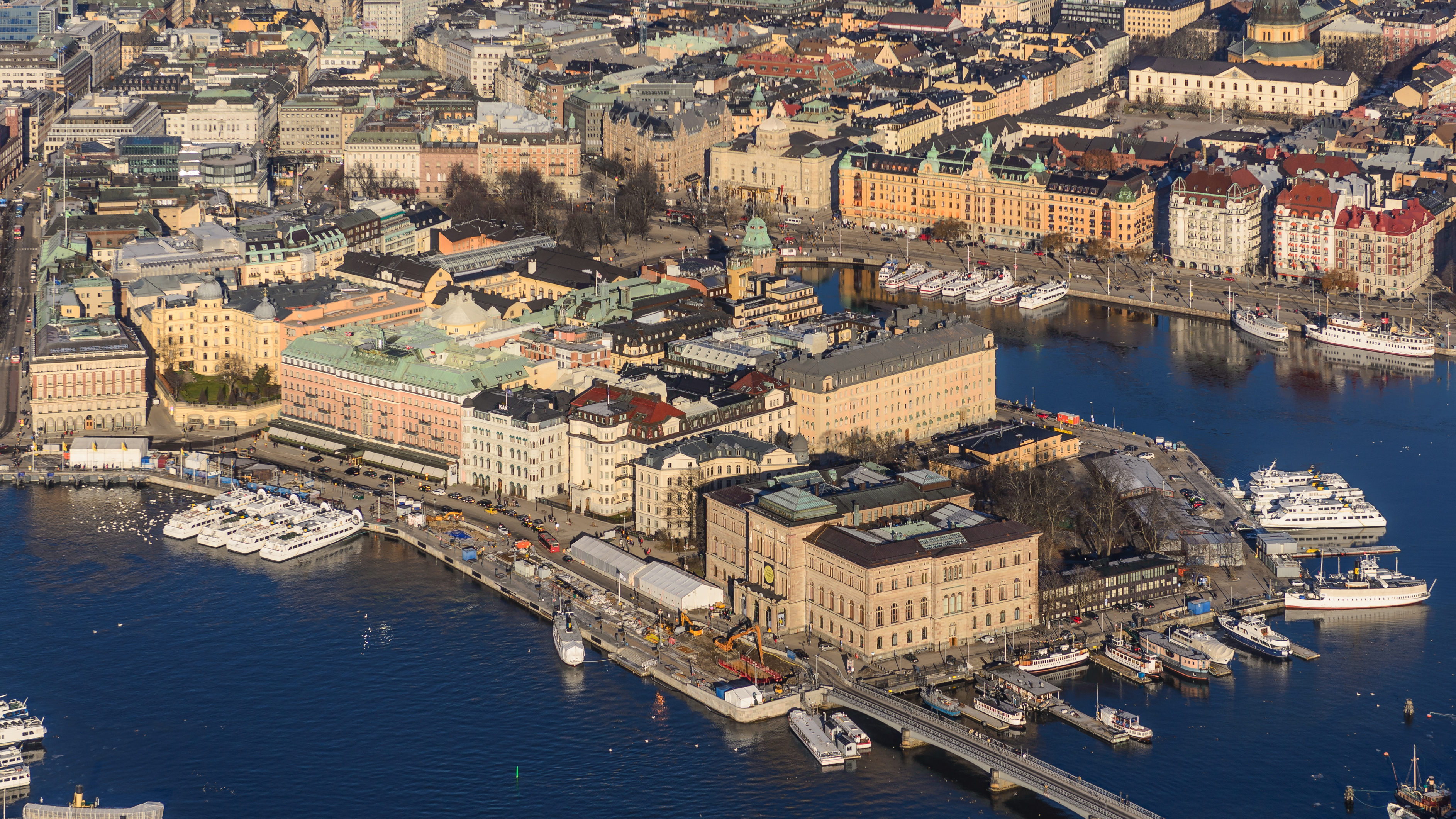 The peninsula Blasieholmen in central Stockholm.